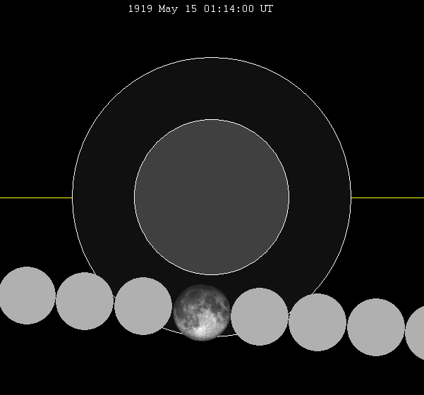 =lunar eclipse chart of moon's path through the earth's shadow. thumb